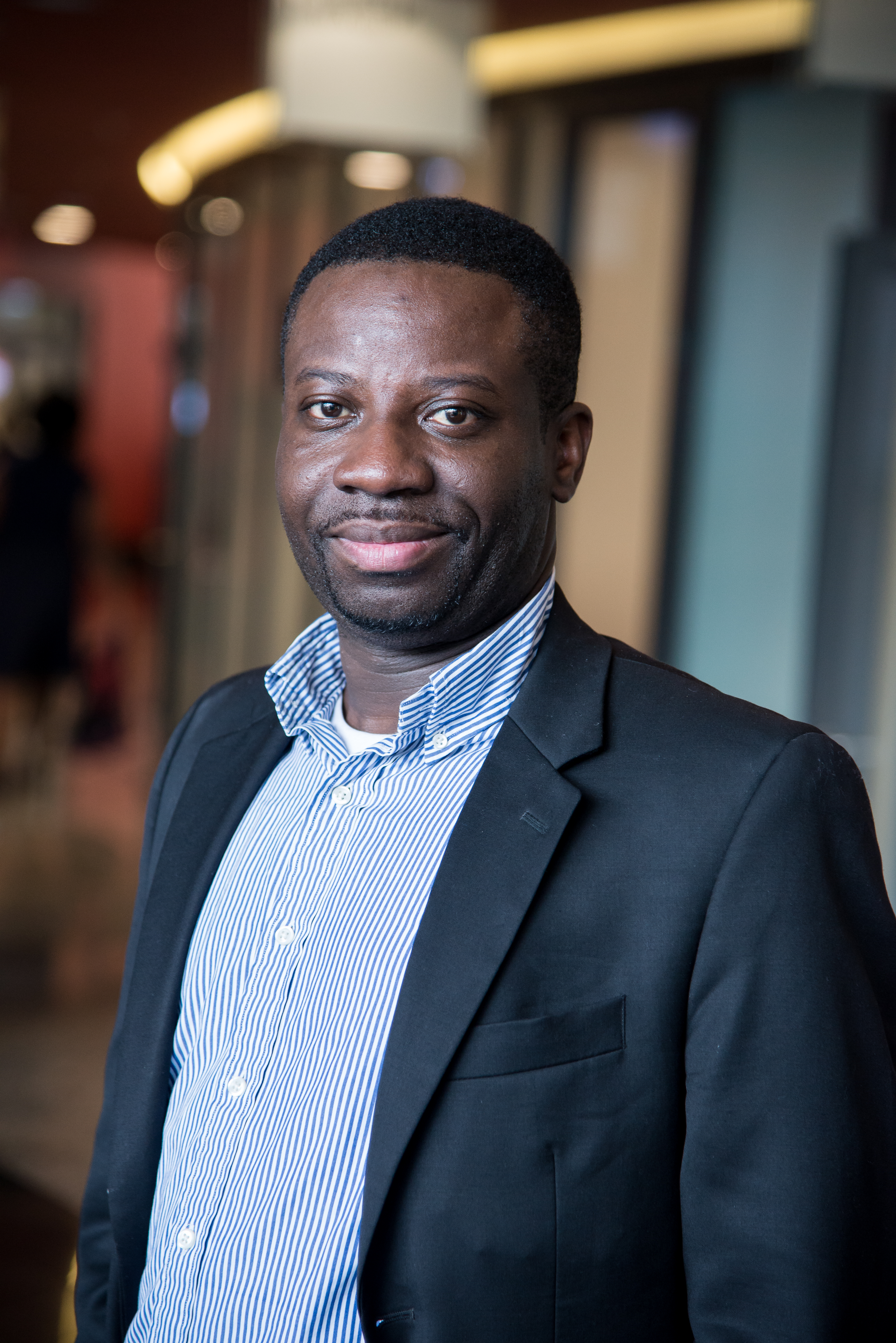 Jonathan Mboyo Esole, at the Next Einstein Global Gathering in March 2018